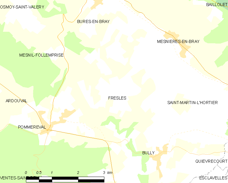 Map of French municipality Fresles